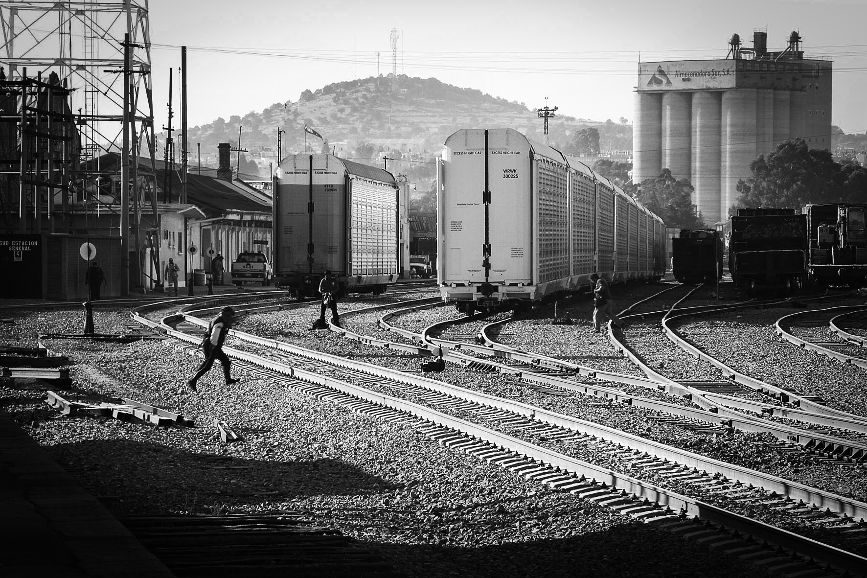 Estación de ferrocarriles FERROSUR, Apizaco, Tlaxcala.